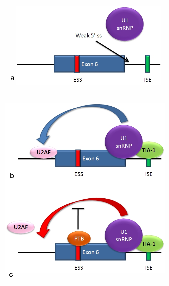 Alternative splicing of the fas apoptosis receptor. a) The 5' splice site downstream from exon 6 in the fas pre-mRNA has a weak agreement with the consensus sequence, and is not bound usually by the U1 snRNP. b) Binding of TIA-1 protein to an intronic splicing enhancer site stabilizes binding of the U1 snRNP. The 5' donor site complex assists in binding of the splicing factor U2AF to the 3' splice site upstream of the exon. c) Binding of polypyrimidine tract binding protein (PTB) to the ure6 exonic splicing silencer in exon 6 prevents the 5' complex from assisting in U2AF binding. In situations a and c, exon 6 is skipped, giving an mRNA encoding a soluble protein product. In situation b, exon 6 is included, and the resulting mRNA encodes the membrane-bound isoform of fas protein, which stimulates programmed cell death (apoptosis). Izquierdo JM, Majós N, Bonnal S, et al (August 2005). "Regulation of Fas alternative splicing by antagonistic effects of TIA-1 and PTB on exon definition". Mol. Cell 19 (4): 475–84. PMID 16109372.